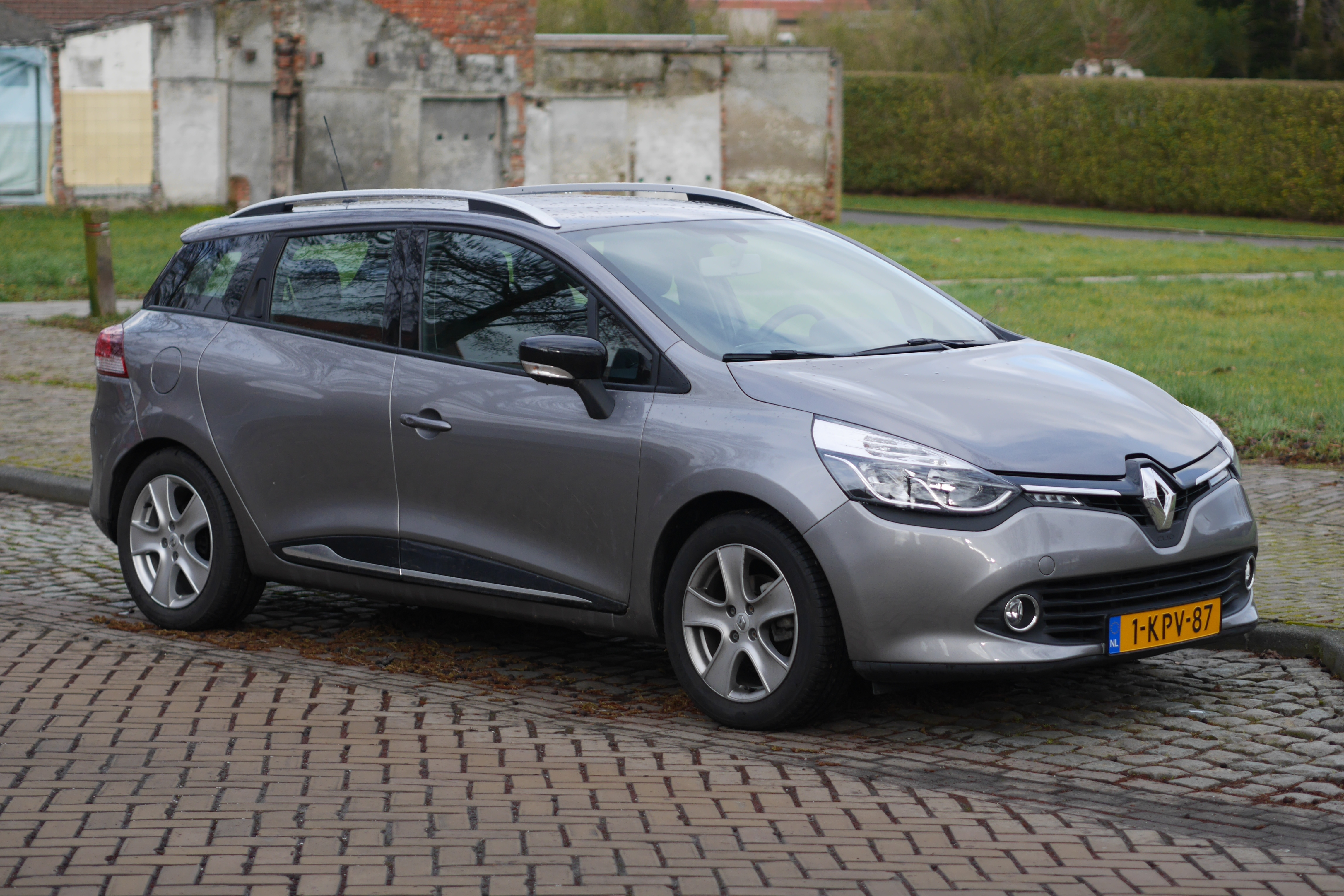 Clio in the Netherlands